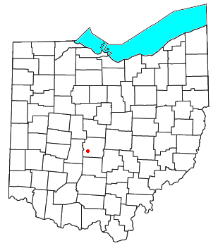 Locator map of the unincorporated community of Galloway in Franklin County, Ohio, United States.